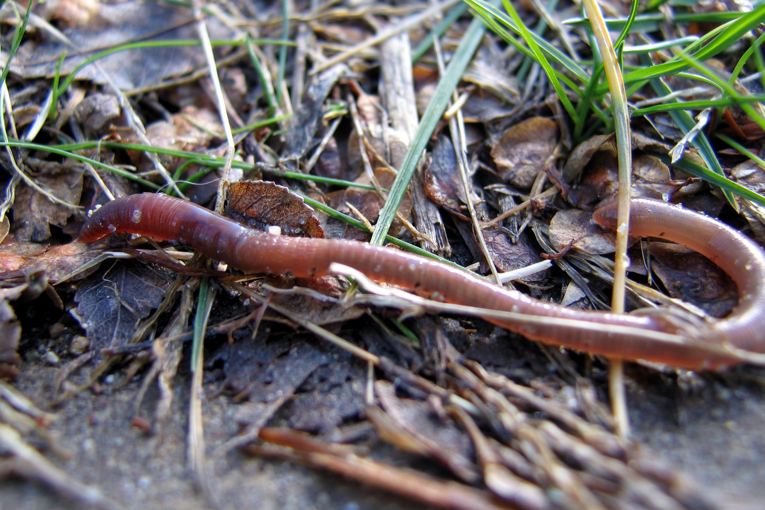 earthworm on ground in Durham (North Carolina). It is a adult Lumbricus terrestris probably on a mild day in winter.